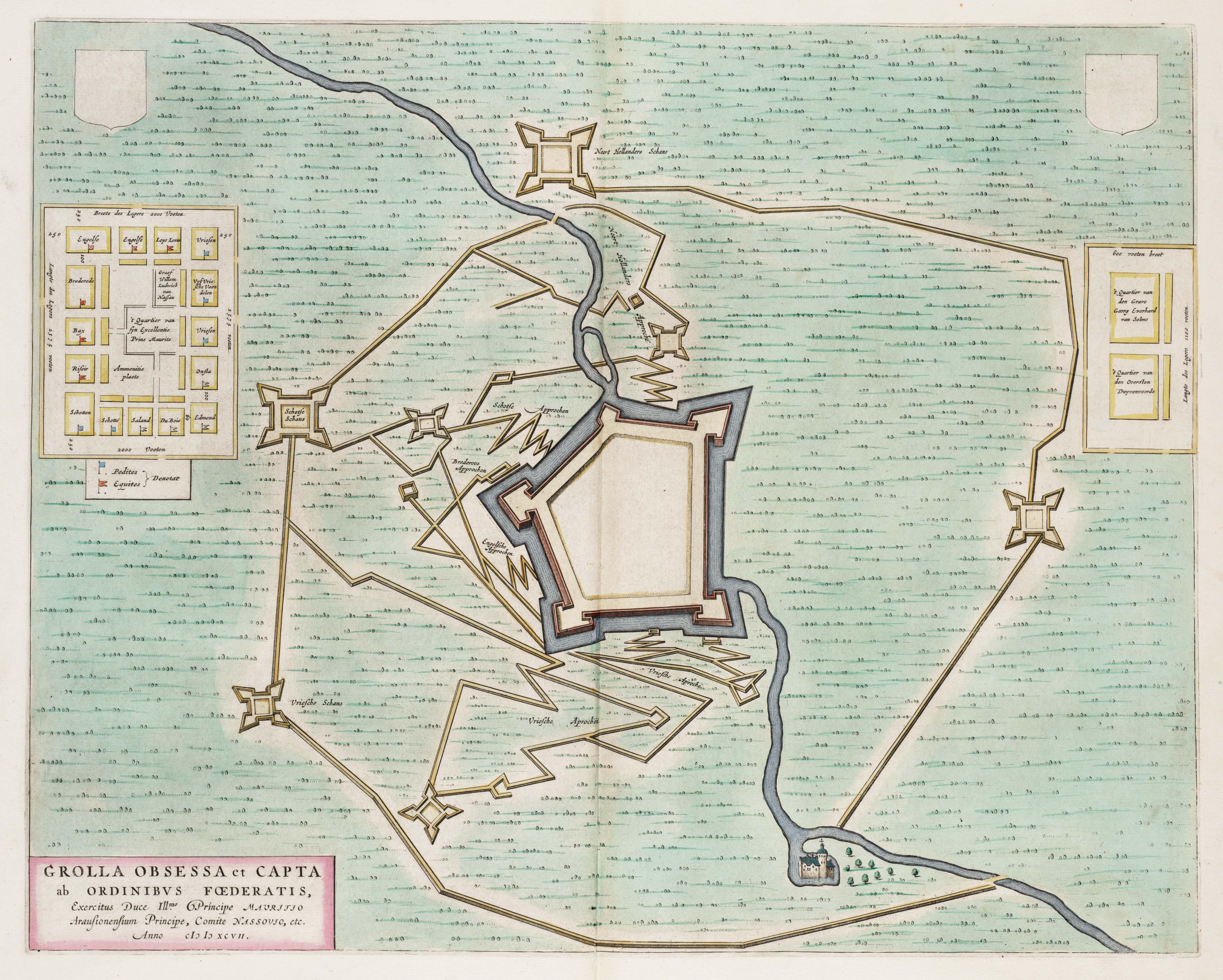 Map of the siege and capture of Grol (Groenlo) in 1597, by Maurice of Orange.